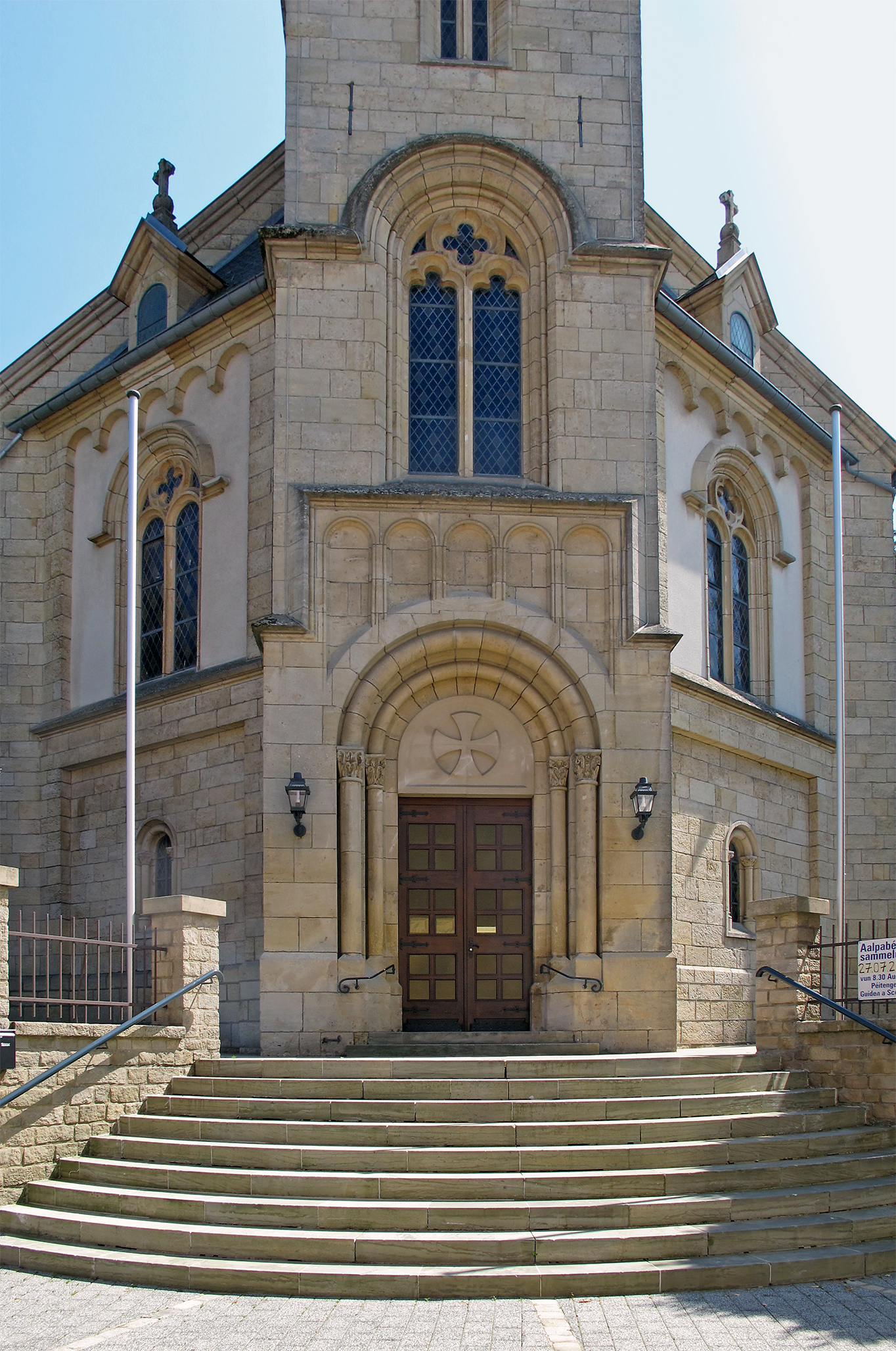 Church of Pétange, Luxembourg